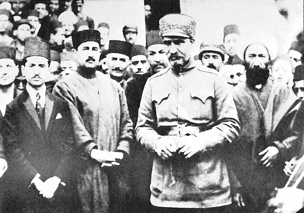 Reza Khan, Minister of Defense